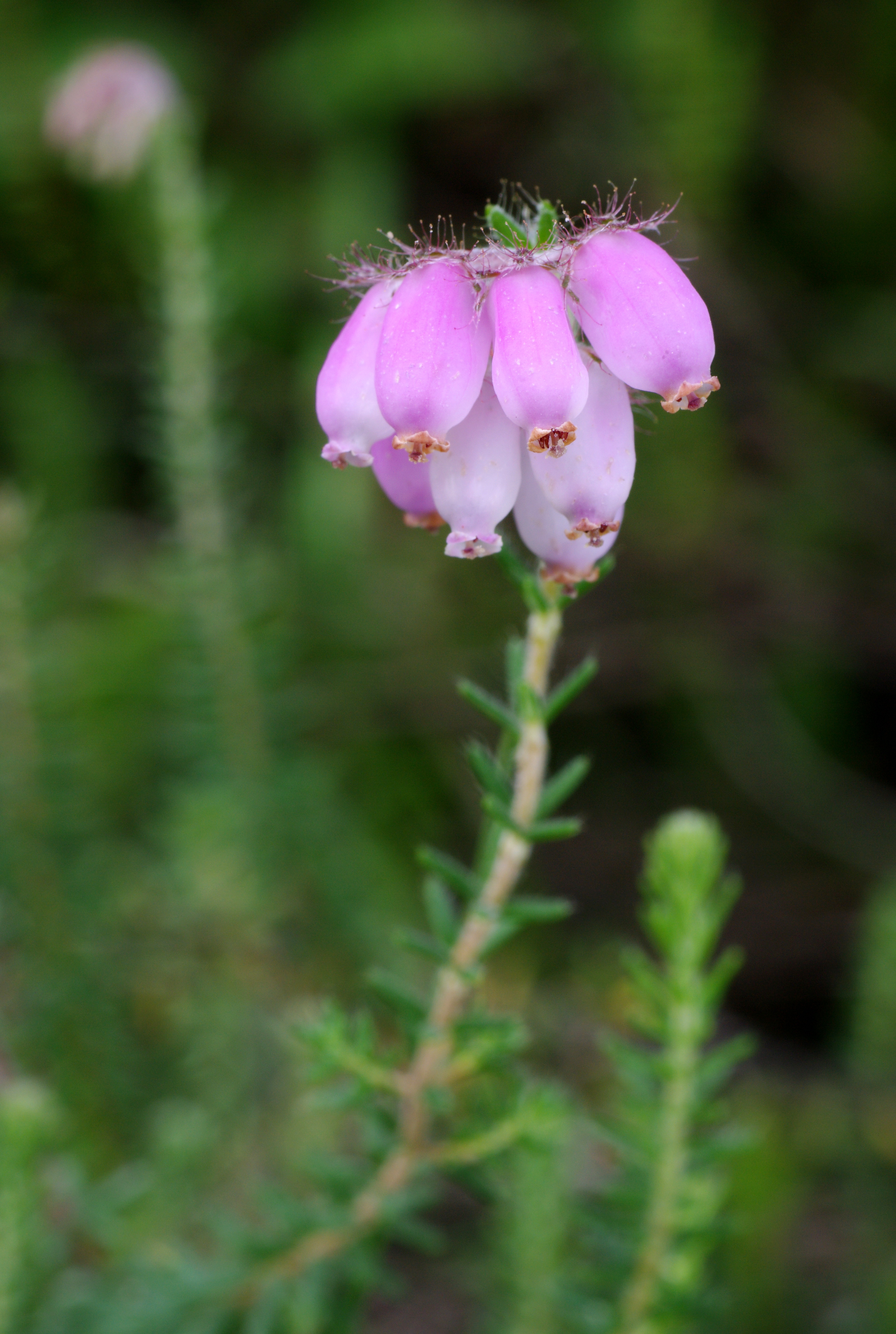 Close-up of an inflorescence of the Cross-leaved Heath, Erica tetralix.